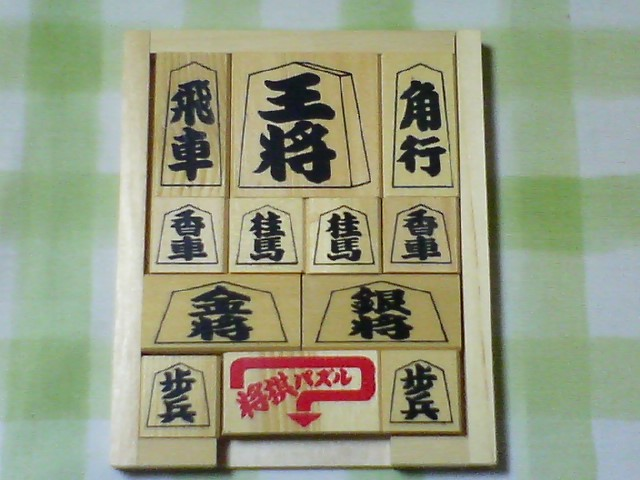 Description Hakoiri-Musume (Daughter-in-the-Box) (箱入り娘) featured Shogi pieces, photographed on 24 April 2006 Author Tamago915 12:06, 8 May 2006 (UTC)